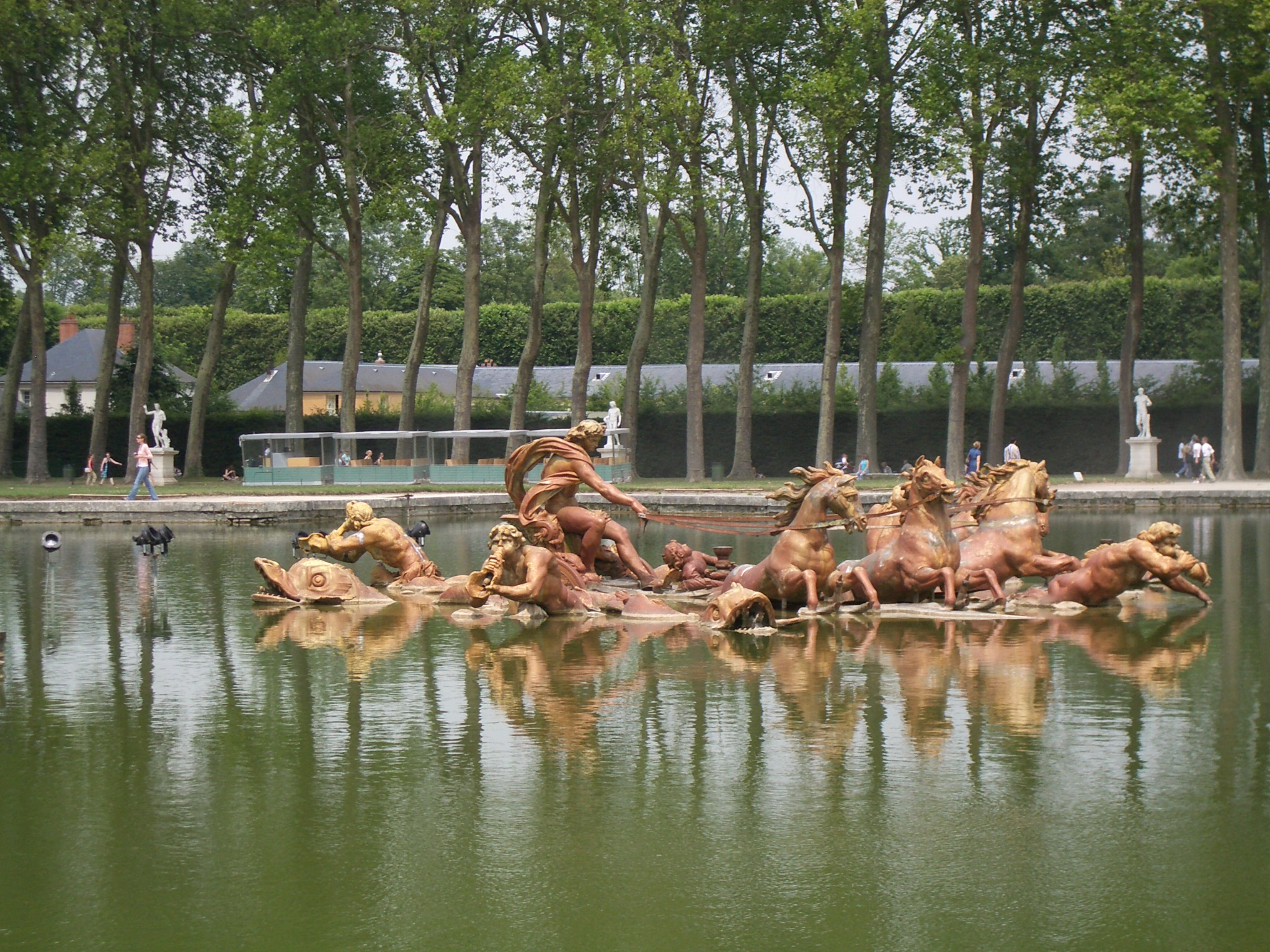 The Château de Versailles (or in English, the Palace of Versailles) is a royal château located in Versailles, 15 km from Paris. For more pictures see Category:Château de Versailles